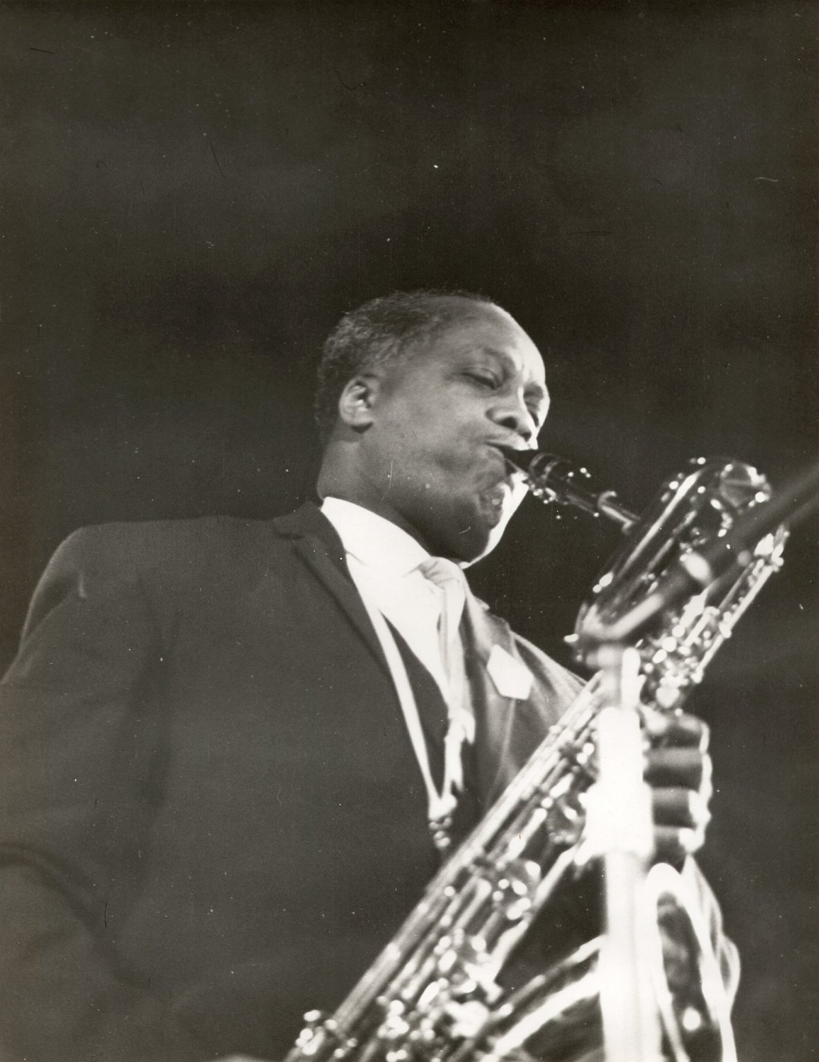 GEORGE TYNDALE 1960